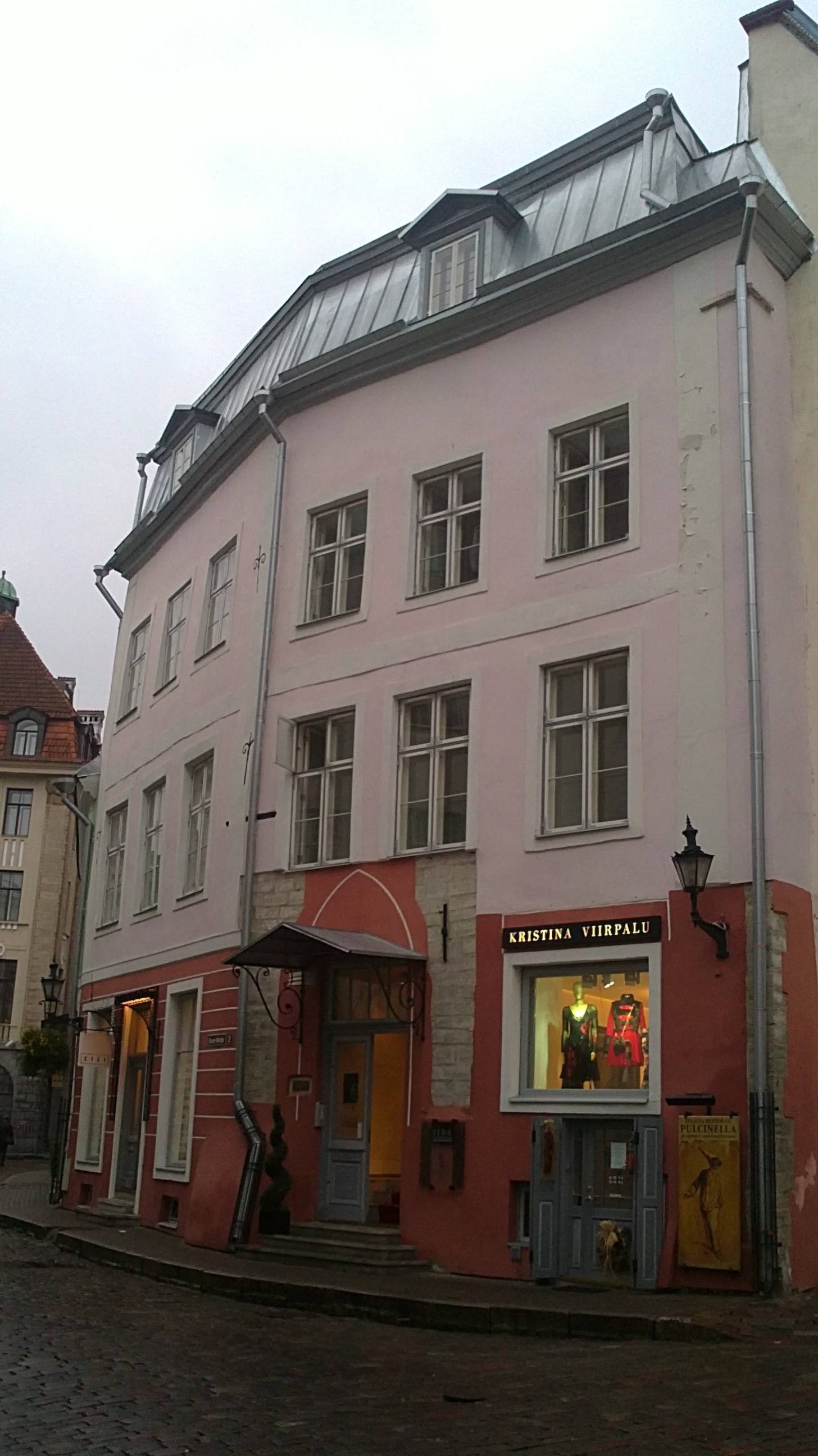 Buiding in Tallinn old town, Suur-Karja 2